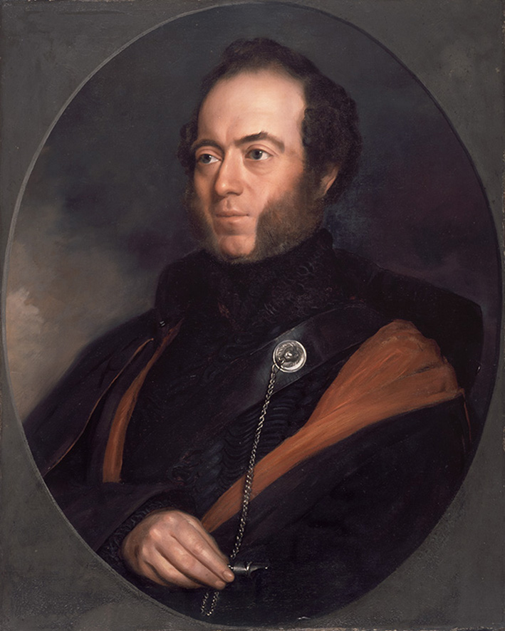 Portrait of Sir Thomas Livingstone Mitchell, c.1835, oil on canvas, unsigned, State Library of New South Wales ML 24